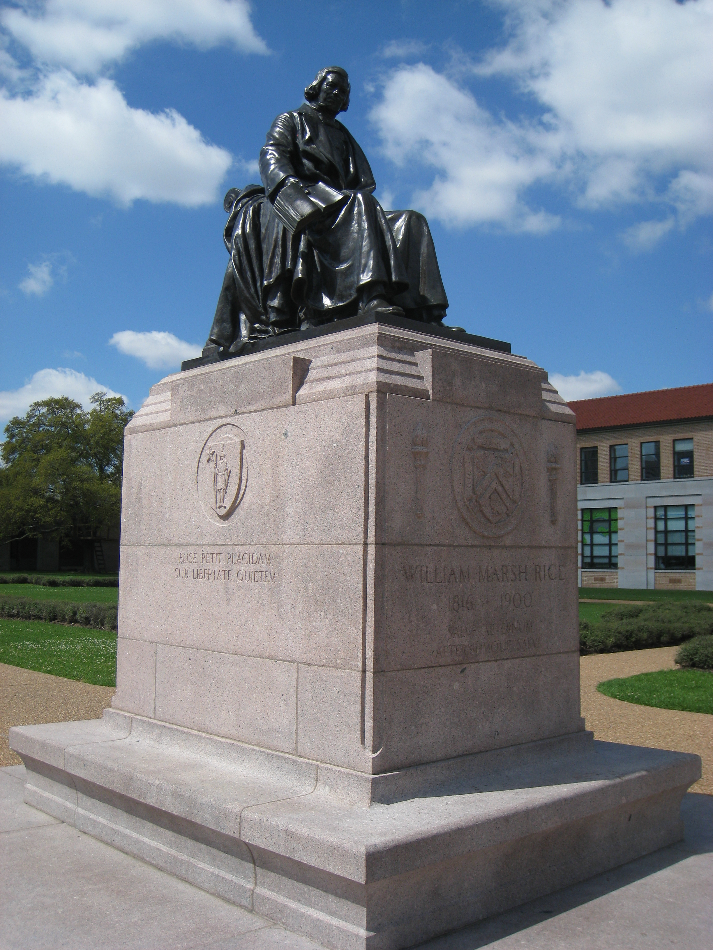 Rice University, Houston, Texas, USA - William Marsh Rice memorial.